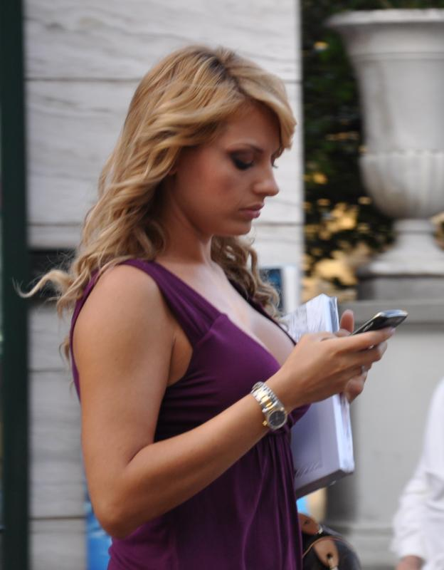 Miss Italia 1999 Manila Nazzaro